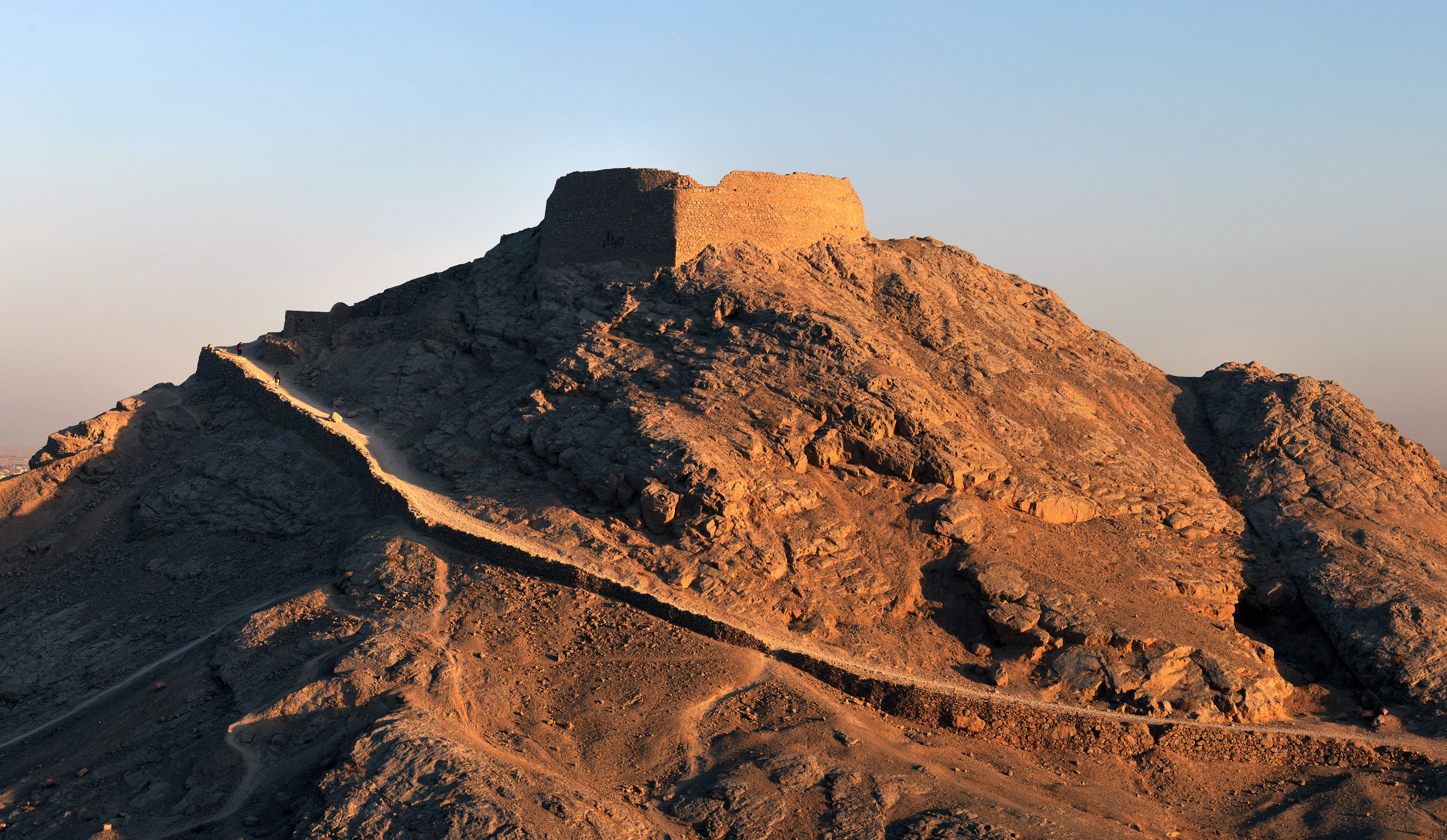 Towers of silence - Zoroastrians Dakhmeh (graveyard), Yazd, Iran.